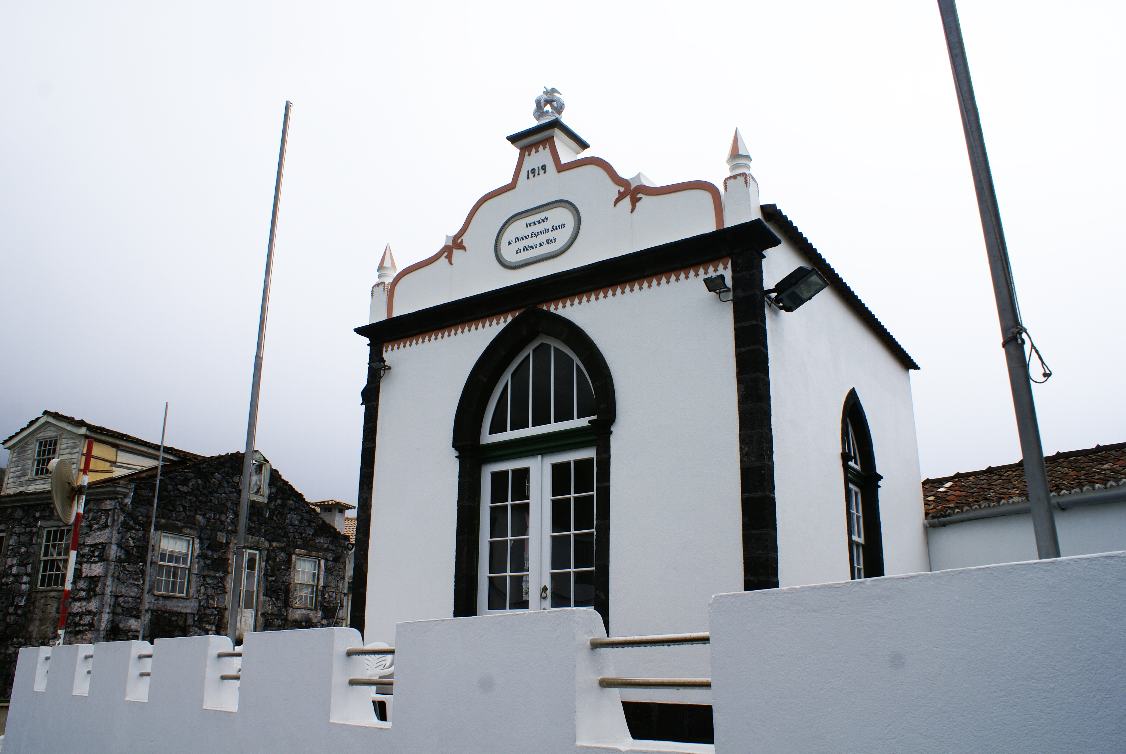 Império do Espírito Santo da Ribeira do Meio, concelho das Lajes do Pico, ilha do Pico, Açores, Portugal